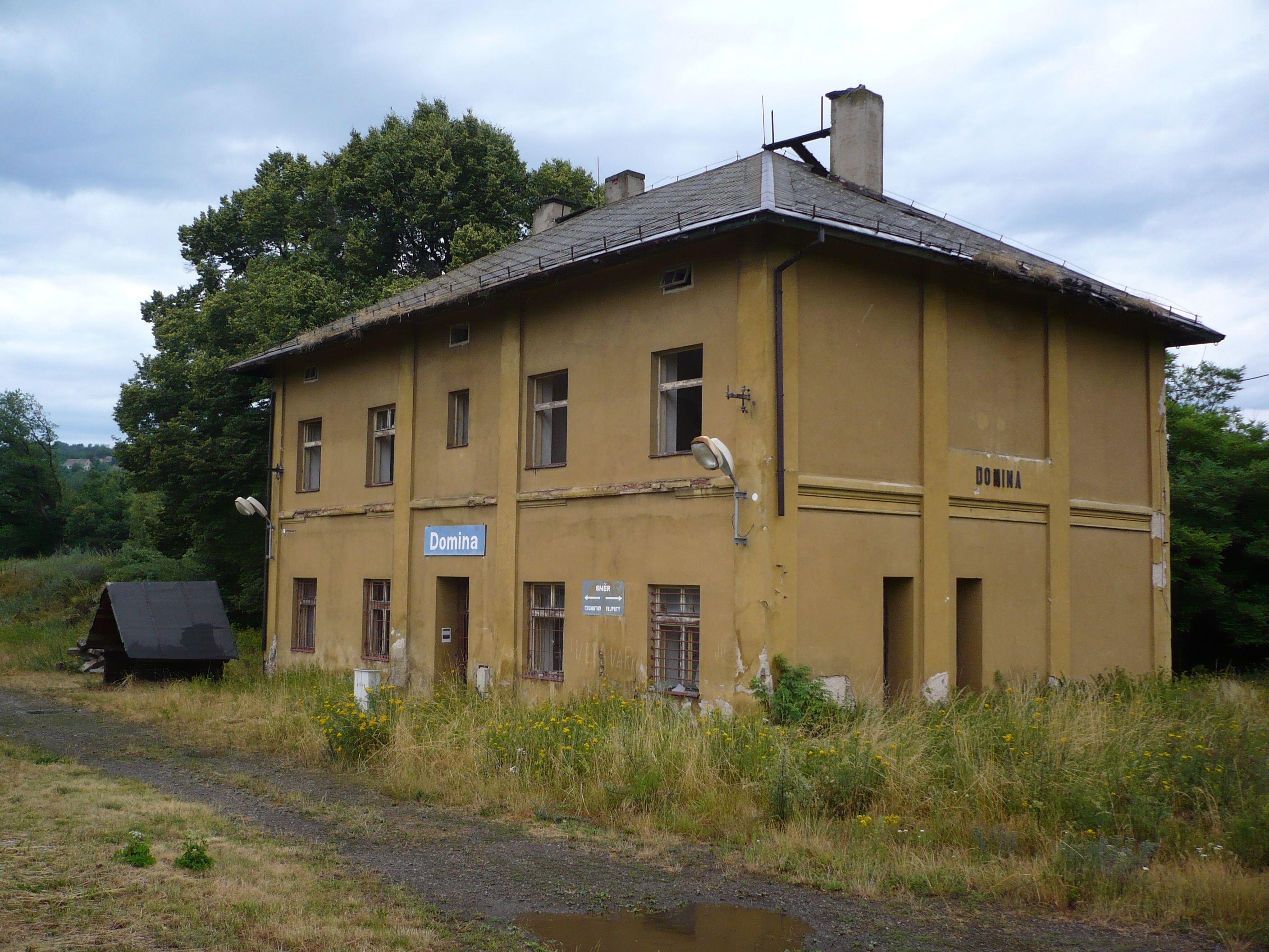 Domina train station. The owner of the building is state organisation Správa železniční dopravní cesty (Křimov-Domina č.p. 27)